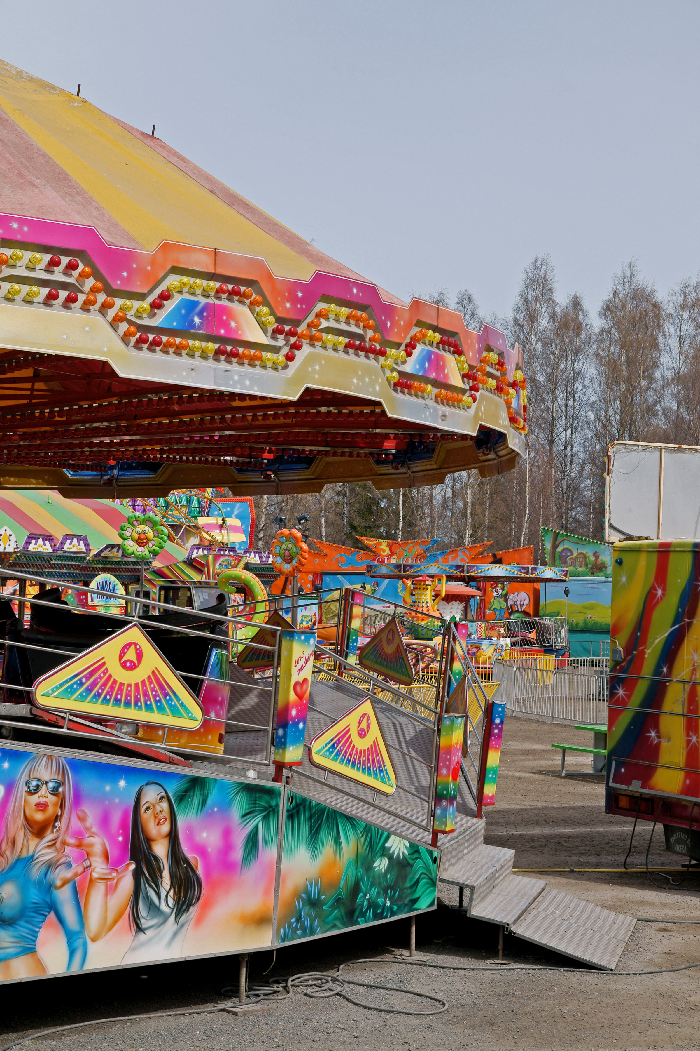 Tivoli Seiterä in Kirjurinluoto, Pori, Finland.